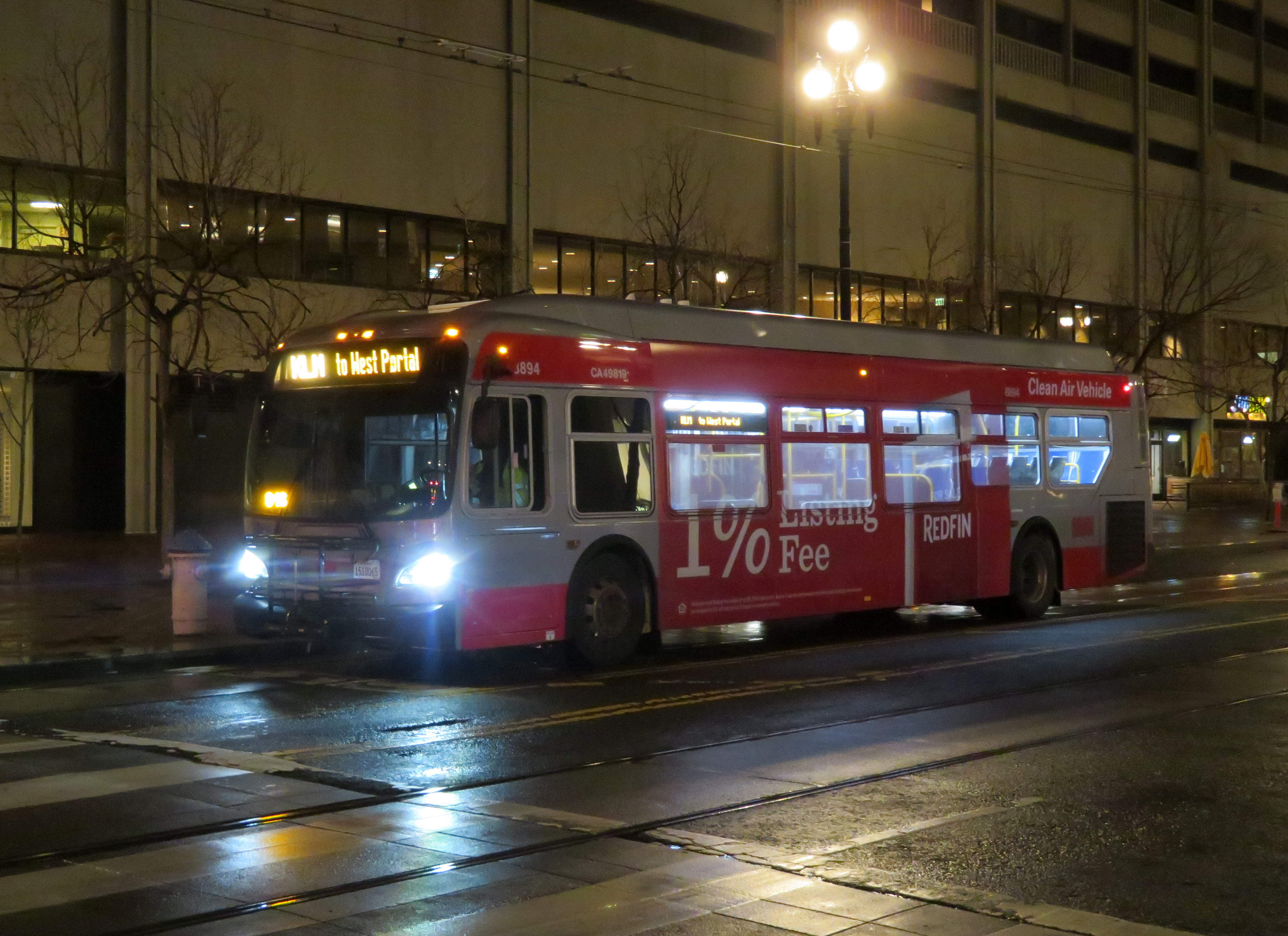 A Muni K Owl bus to West Portal (signed as KLM) on Market Street near Spear Street in March 2019